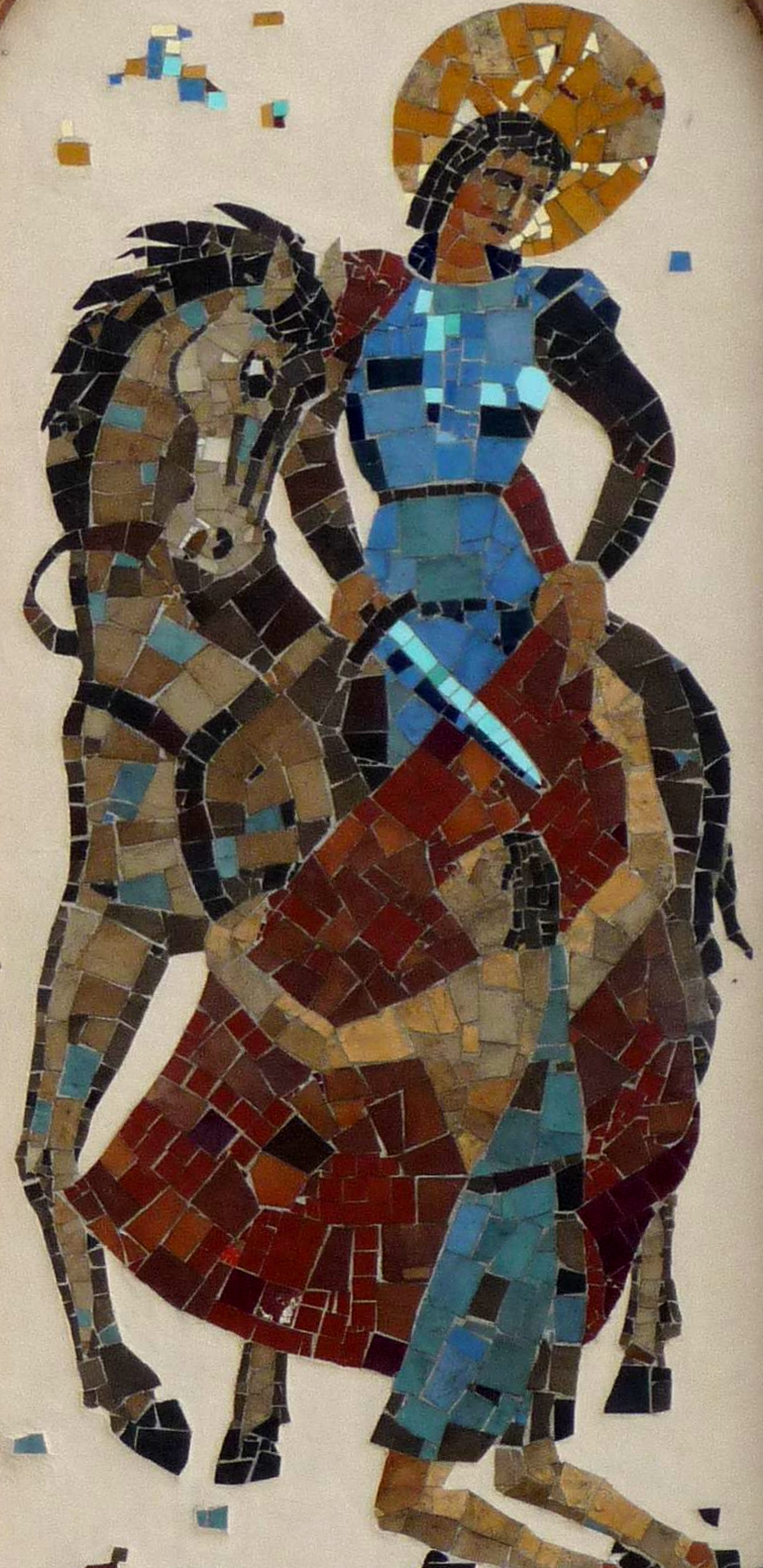 Mosaic of the sculptor Hans König at the St. Martin Church in Ludwigshafen-Oppau